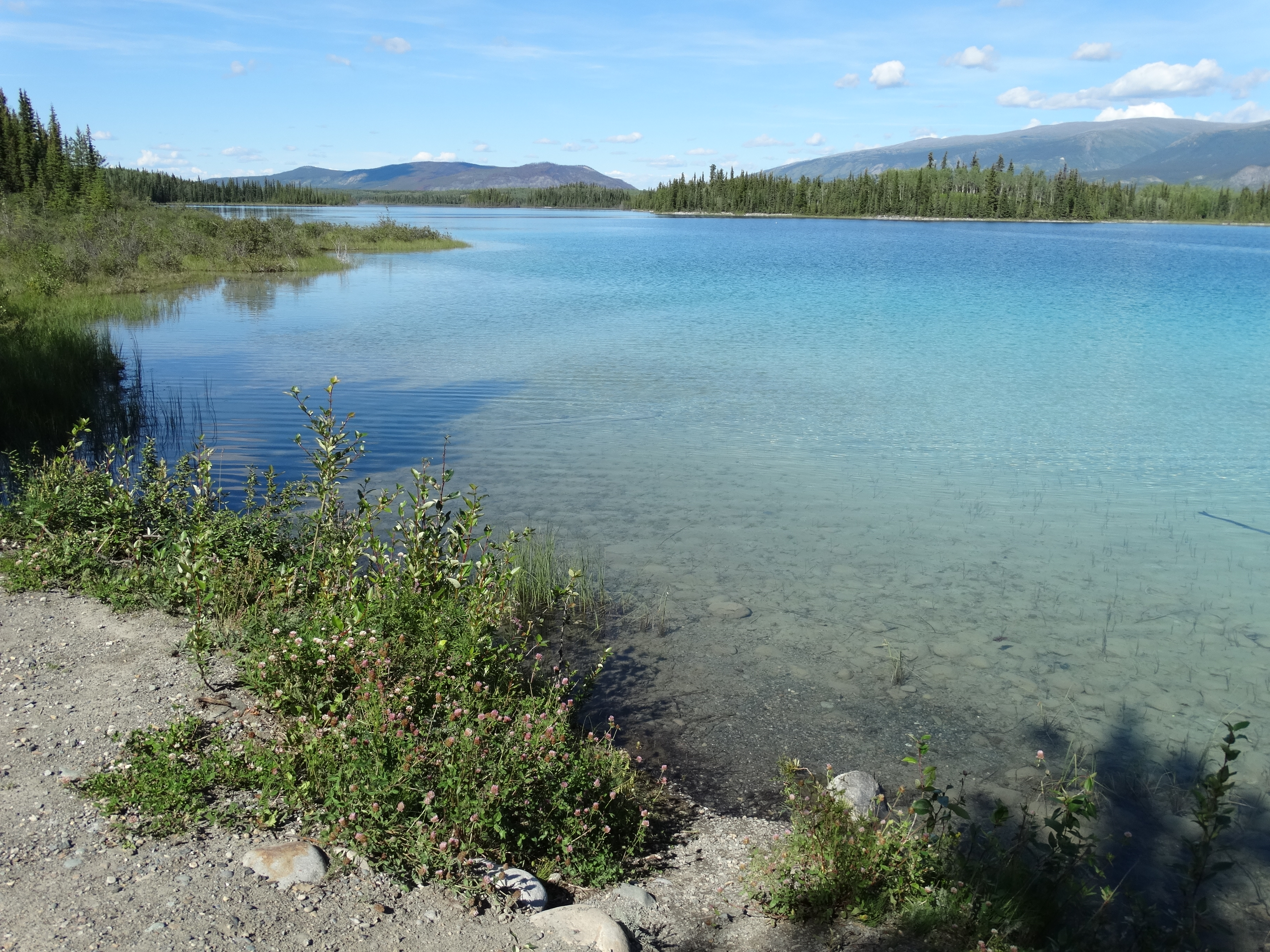 Boya Lake - Boya Lake Provincial Park - Near Watson Lake - Northern British Columbia - Canada - 01